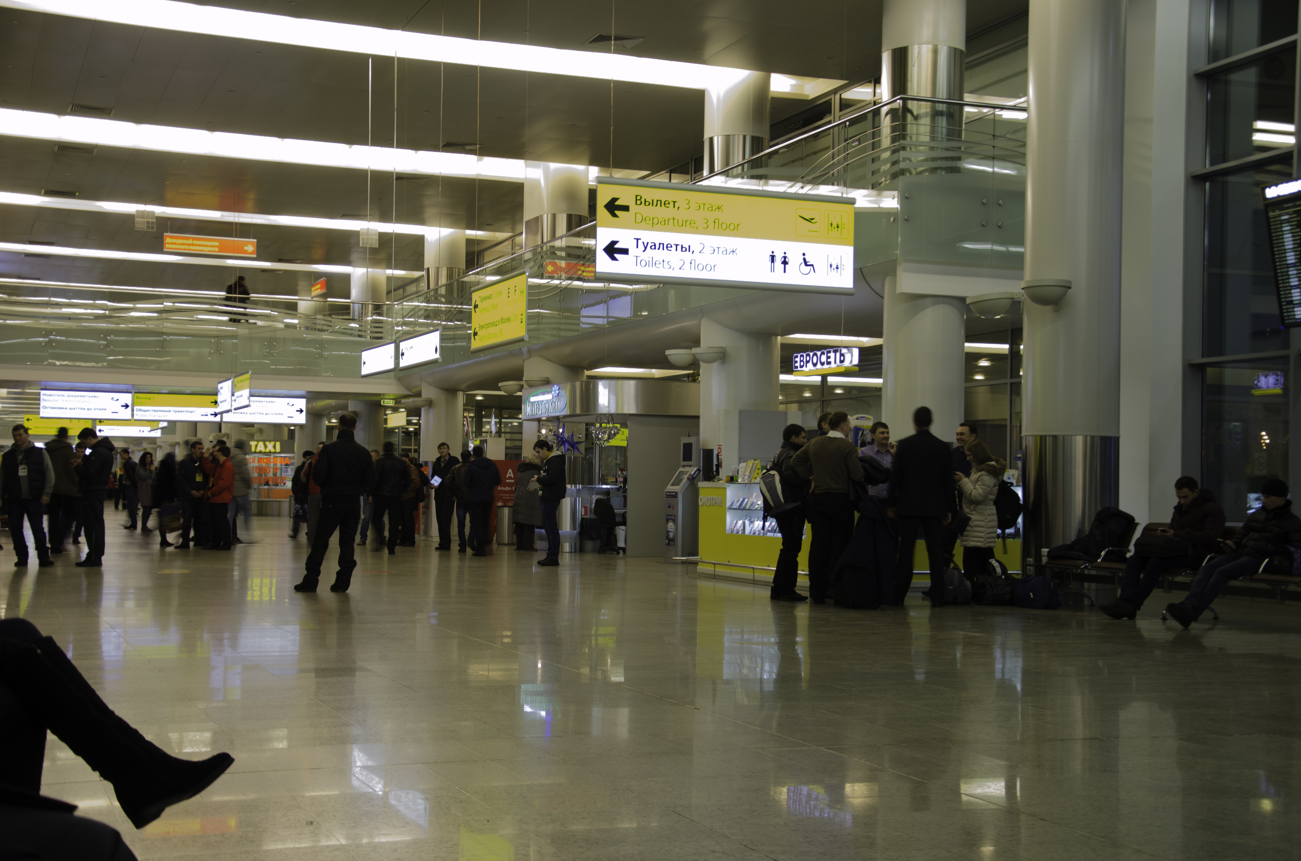 Terminal D, Arrivals, Sheremetyevo Airport, Russia